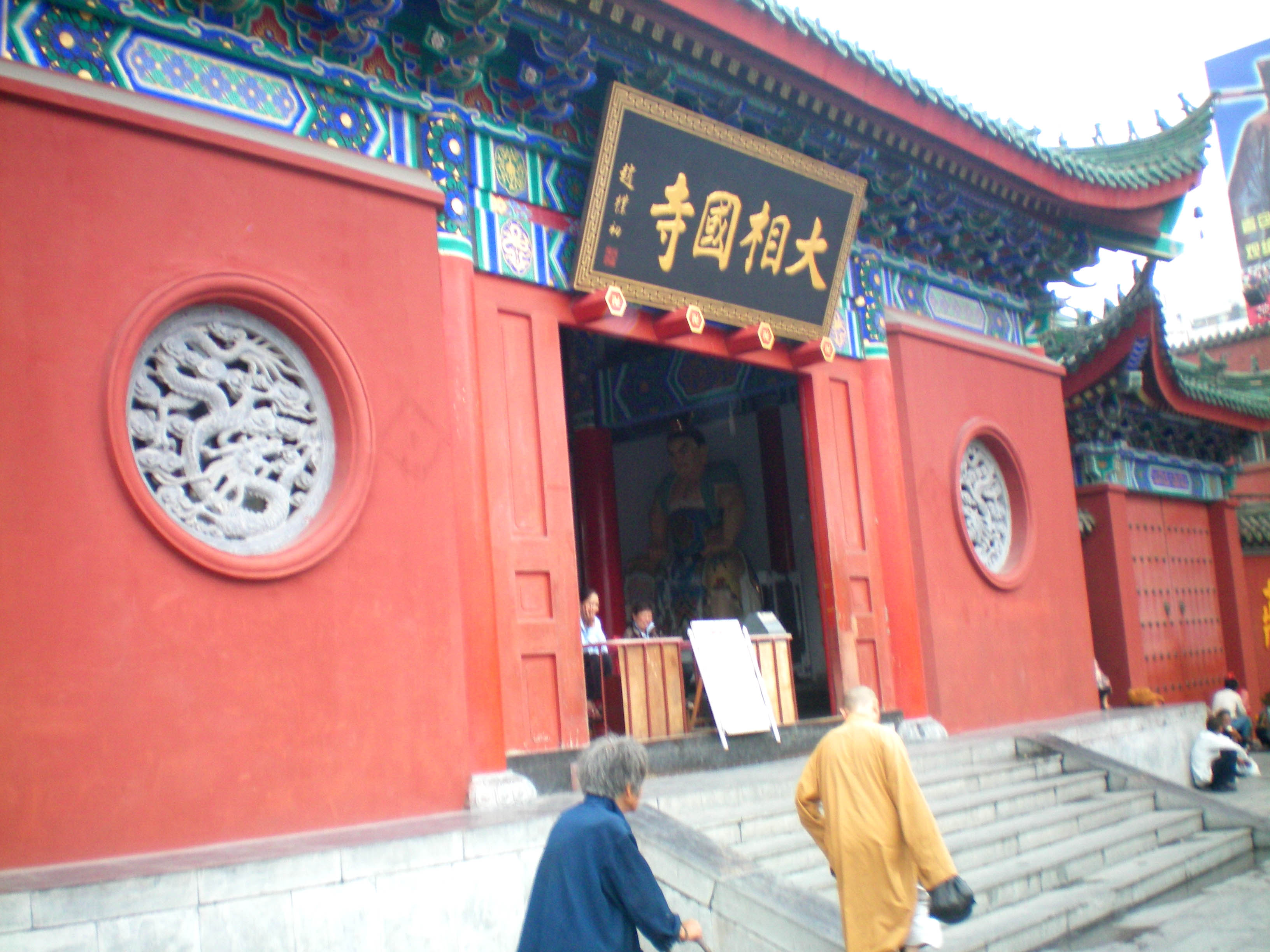 Daxiangguo Temple (Daxiangguosi) in Kaifeng, Henan.